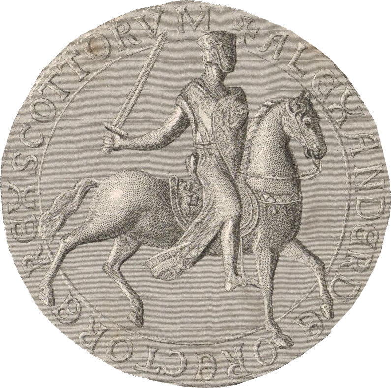 Steel engraving and enhancement of the Great Seal of Alexander II, King of Alba (Scotland).